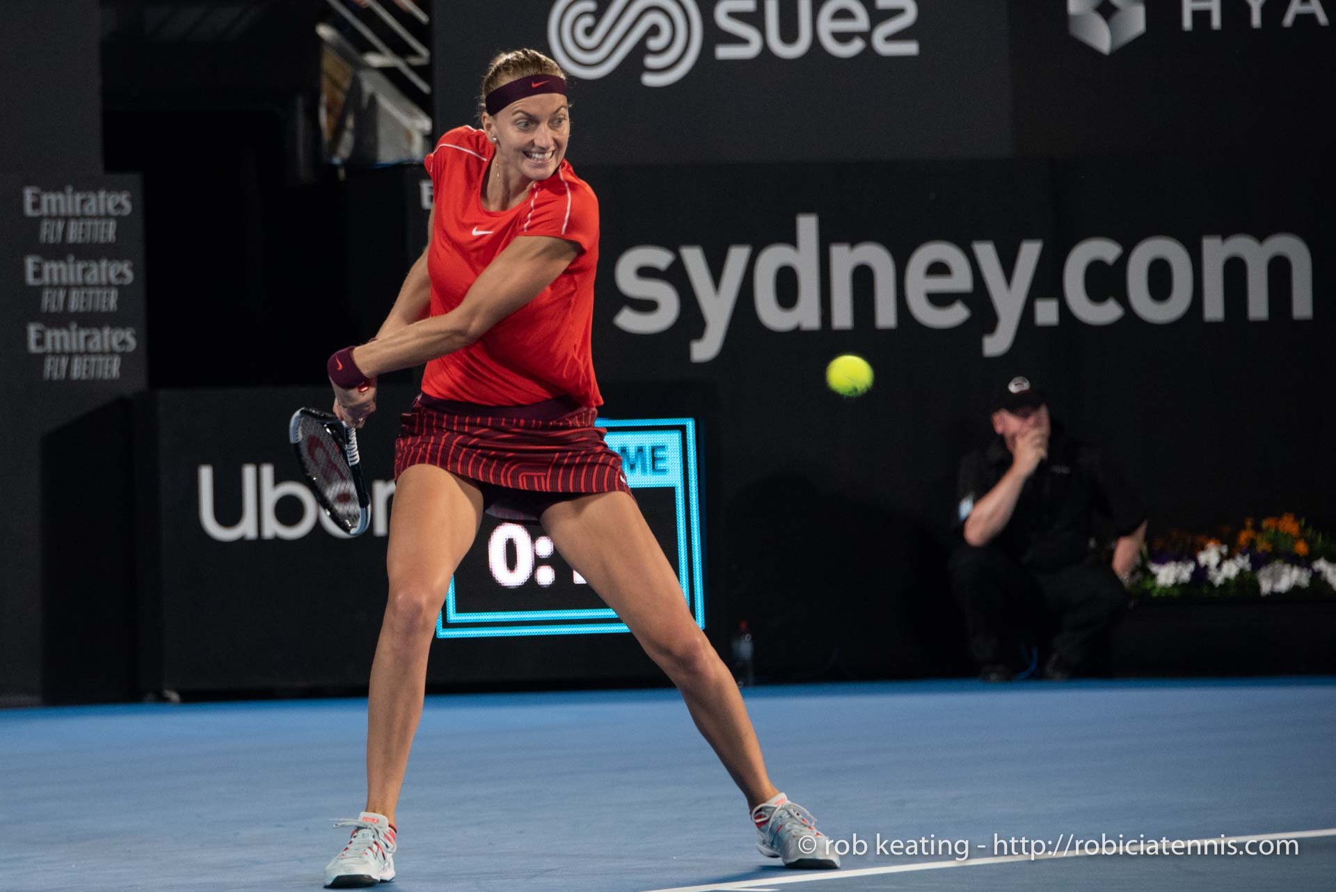 Sydney, Australia - 10 January 2019: Petra Kvitova hitting a backhand during her Sydney International singles quarterfinal match against Angelique Kerber on Ken Rosewall Arena, Sydney Olympic Park. (Photo by Rob Keating/robiciatennis.com)